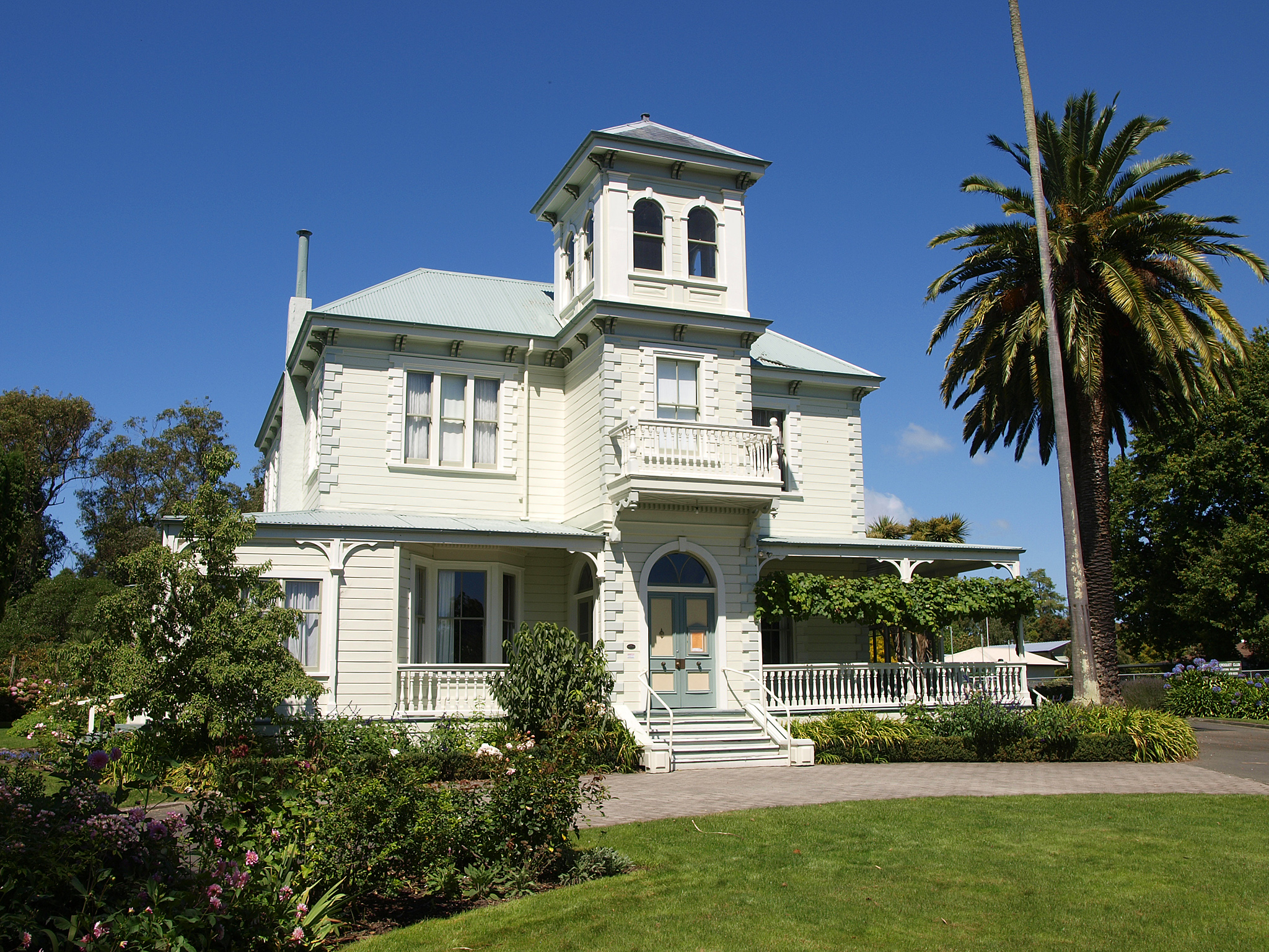 Duart House (1882), Havelock North, Hawke's Bay Region, New Zealand.